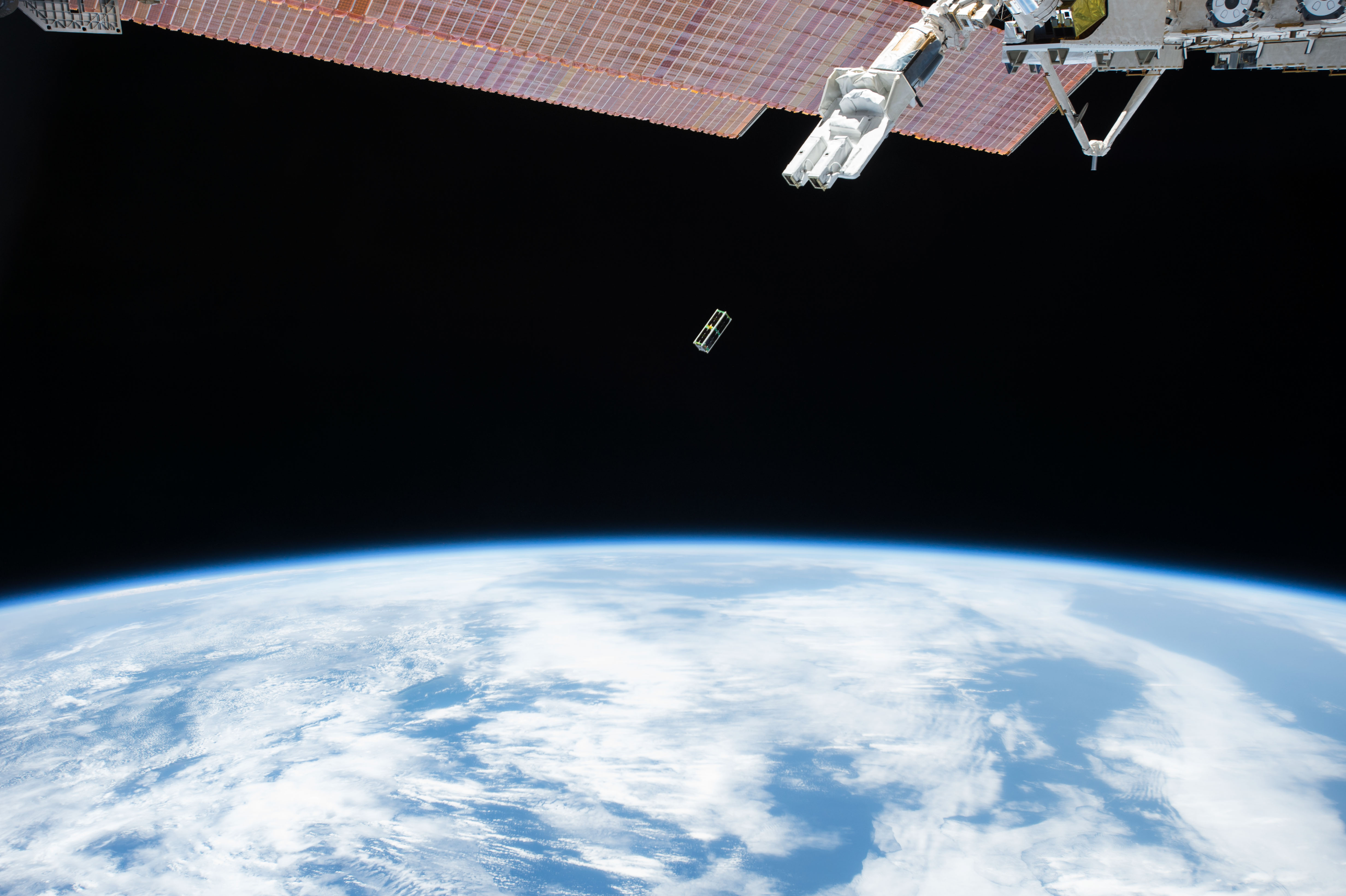 A Japanese Small Satellite is deployed from outside the Japanese Experiment Module on Sept. 17, 2015. Two satellites were sent into Earth orbit by the Small Satellite Orbital Deployer. The first satellite is designed to observe the Ultraviolet (UV) spectrum during the Orionid meteor shower in October. The second satellite, sponsored by the University of Brasilia and the Brazilian government, focuses on meteorological data collection.